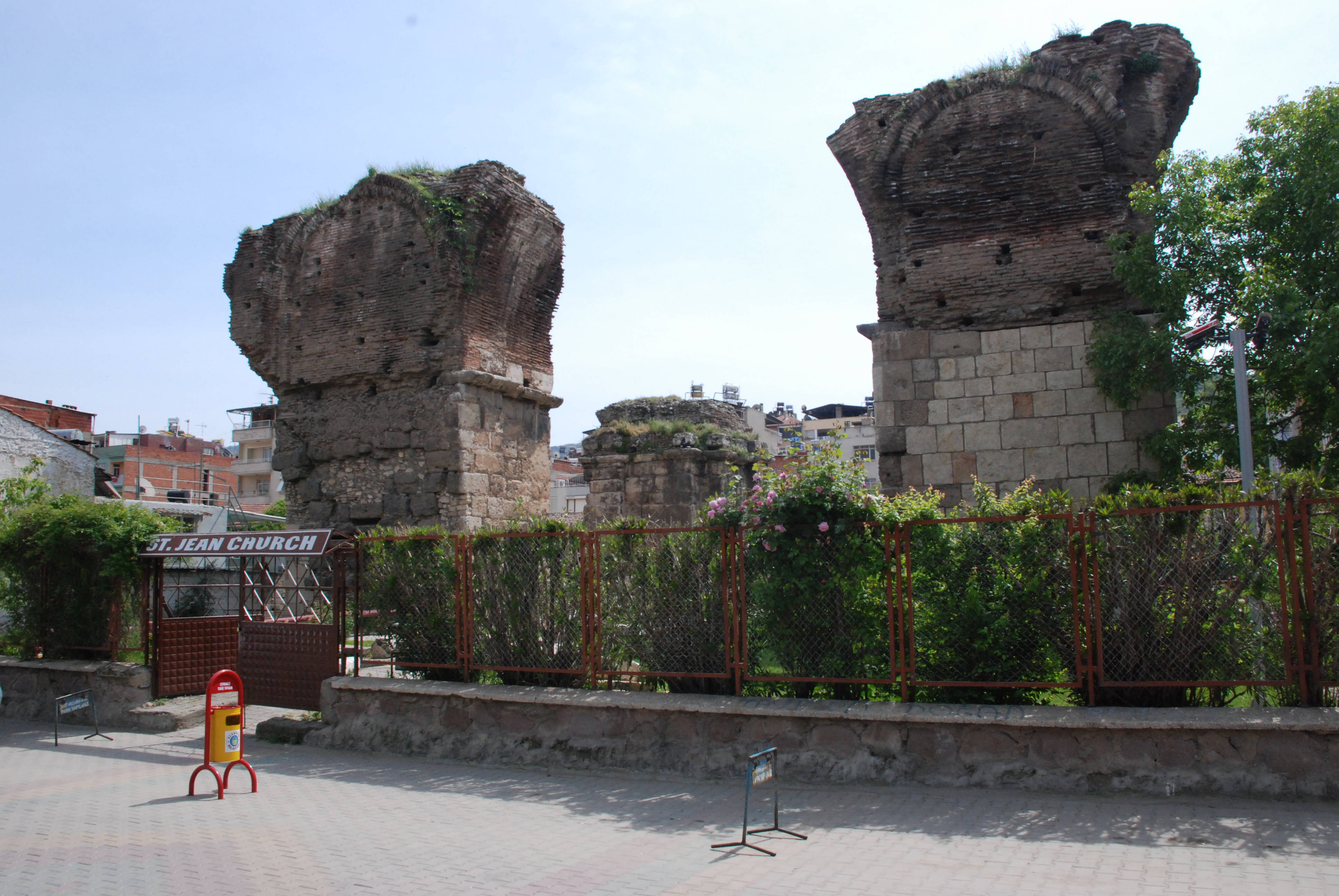 Church of St. John In Alaşehir (ancient Philadelphia).